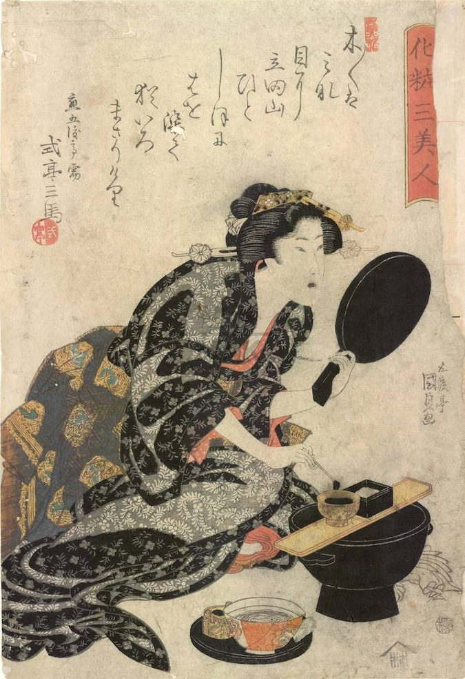 woodblock print, sigend ’Gototei Kunisada ga’, series ’Three beauties making up their faces’, publisher Iseya Rihei, c. 1815